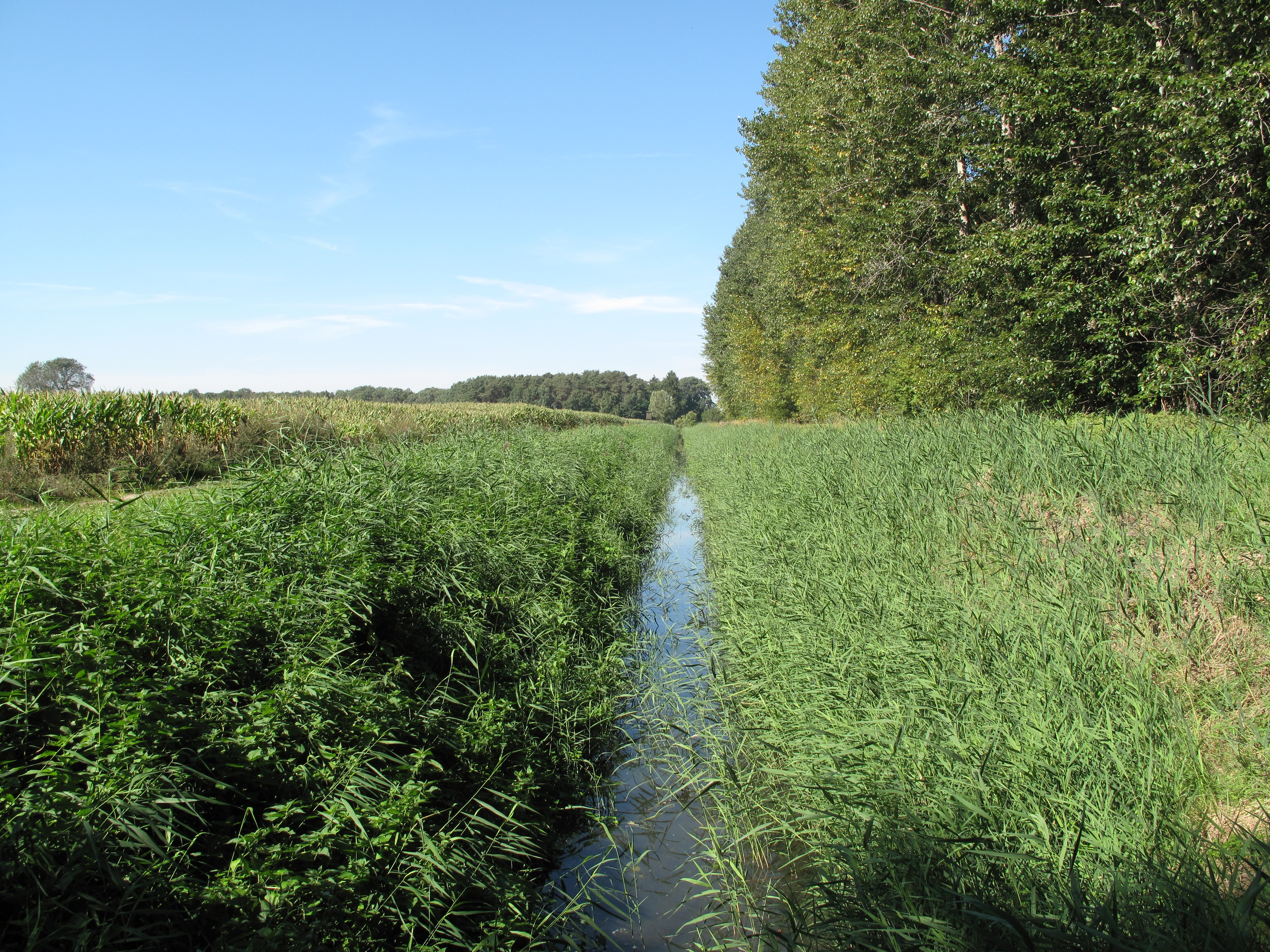 Rieploser Fließ just after leaving the Lebbiner See in Markgrafpieske, municipality Spreenhagen. The 3,88 kilometres long stream connects the Lebbiner See with the Stahnsdorfer See (lakes). The eponymous village Rieplos is a part of the town Storkow, District Oder-Spree, Brandenburg, Germany. The village and the stream are situated in the Dahme-Heideseen Nature Park.